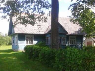 Here Augustinas Voldemaras house, which is a Dysna village. Made of the same, clipped, because you could see a little finger.